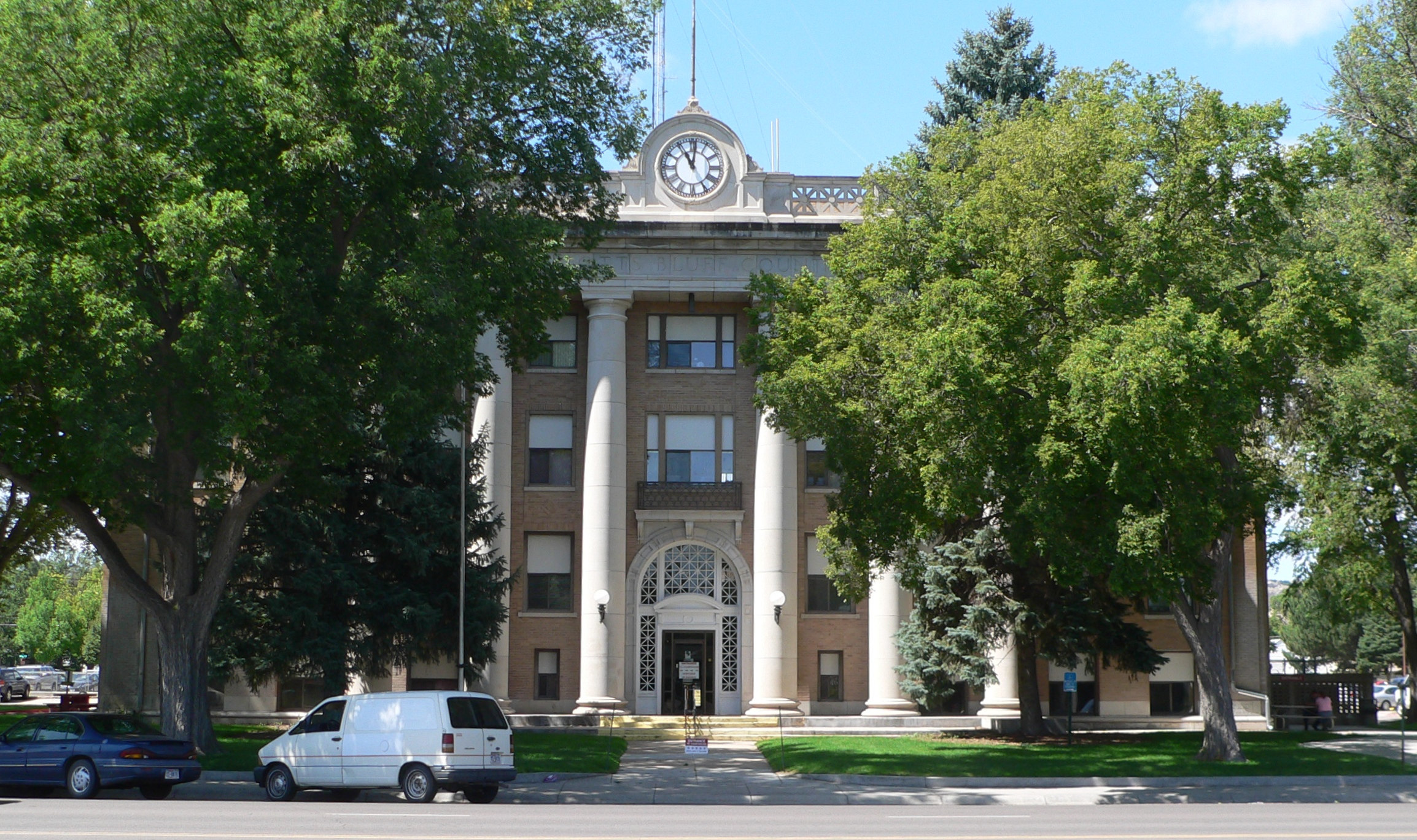 Scotts Bluff County Courthouse in Gering, Nebraska; seen from the east. The Classical Revival building was constructed in 1920. It is listed in the National Register of Historic Places.